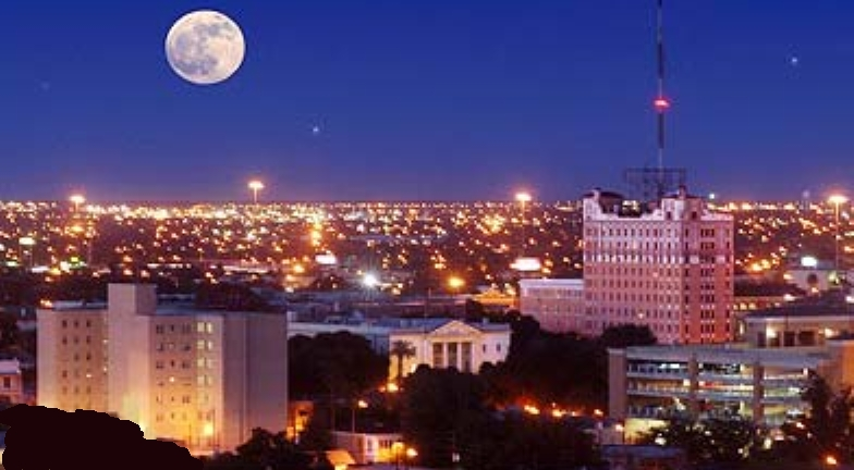 The Laredo Skyline located near the Mexican Border